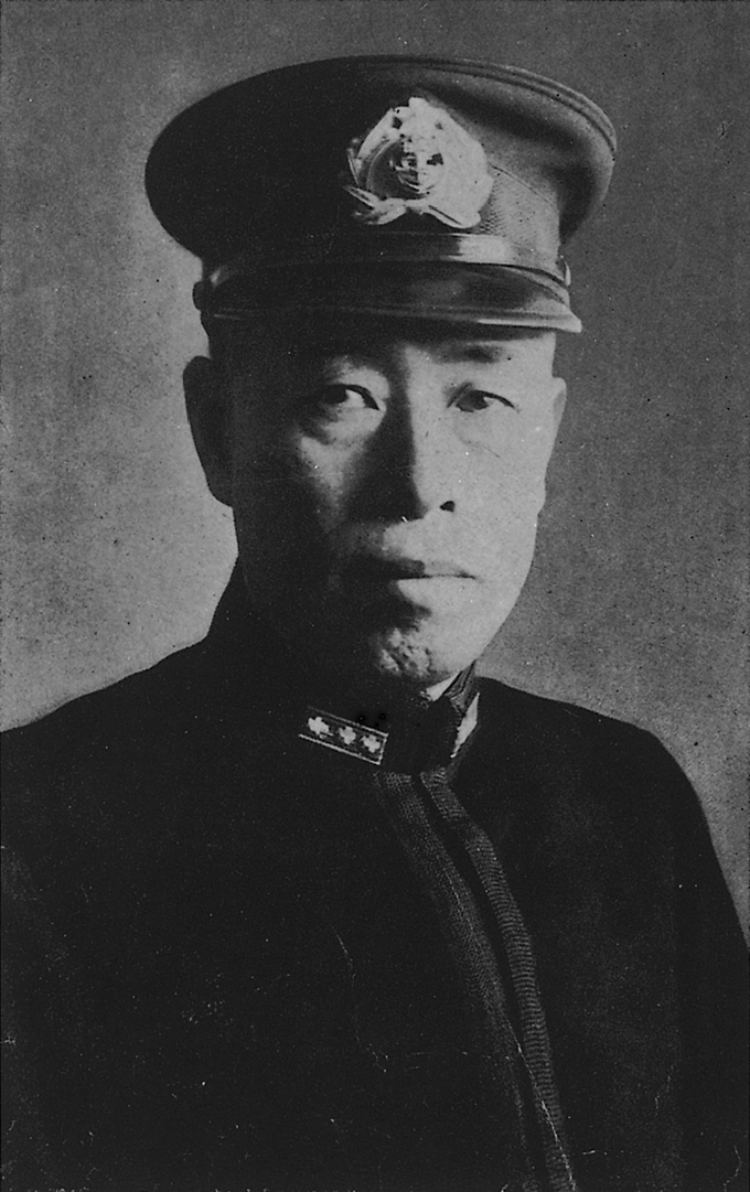 Portrait of Yamamoto Isoroku (山本五十六, 1884 – 1943)